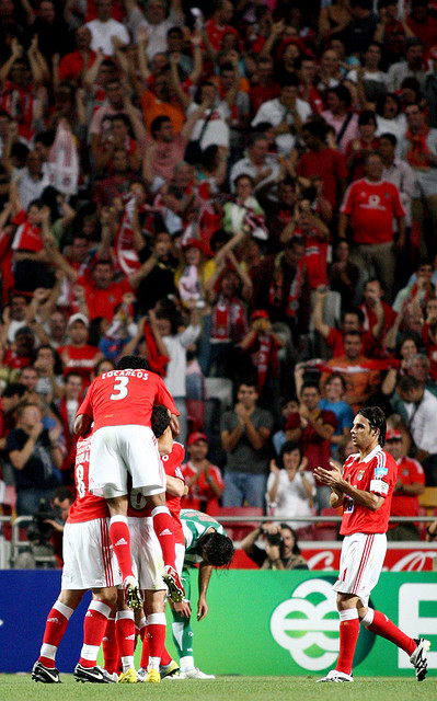 my first game as a lusa photographer at a Benfica match, my team.. It was hard not to celebrate the goals and photograph it instead :)